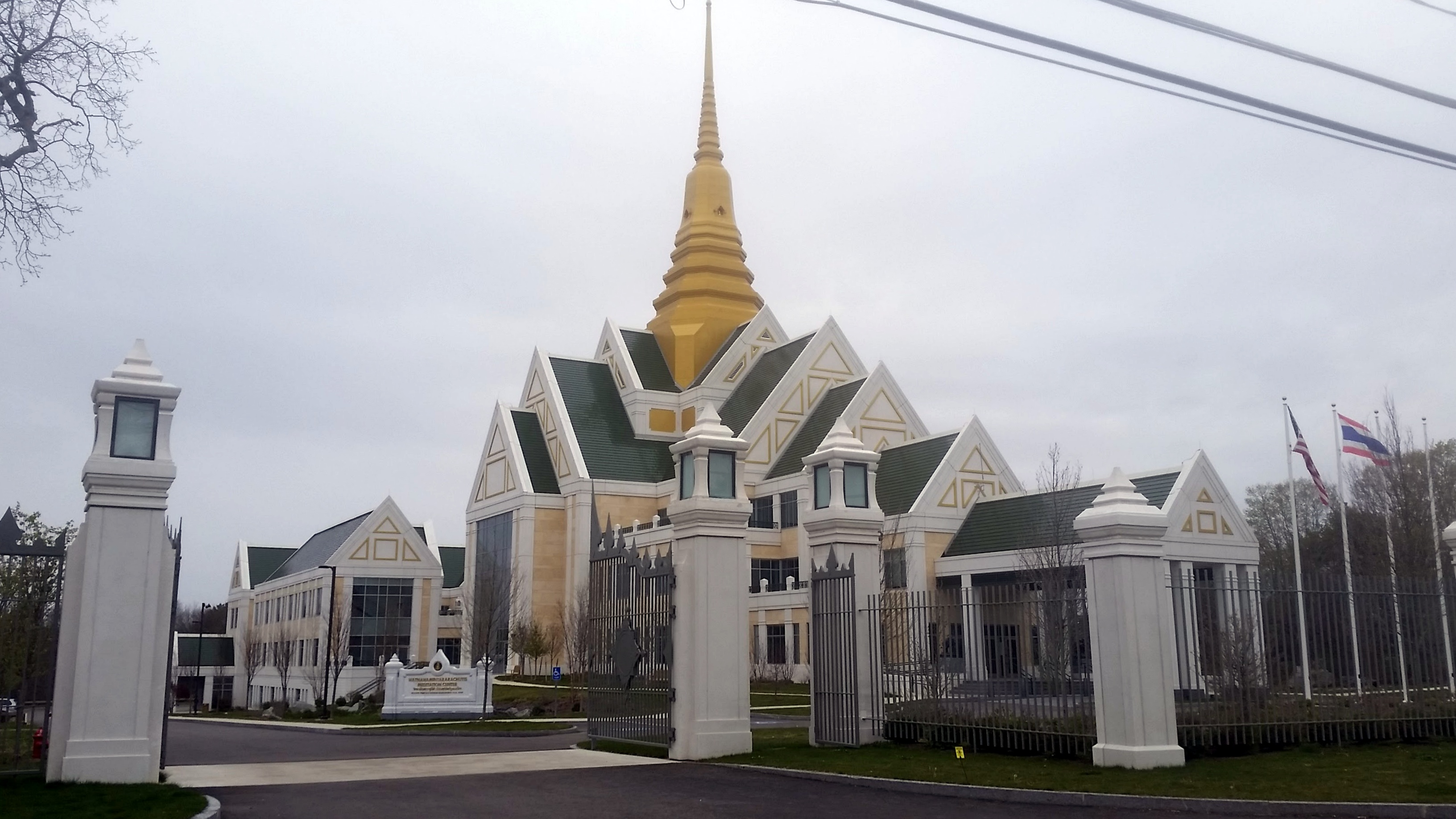 Photo of the Wat Nawamintararachutis located in Raynham, MA USA taken Spring of 2016